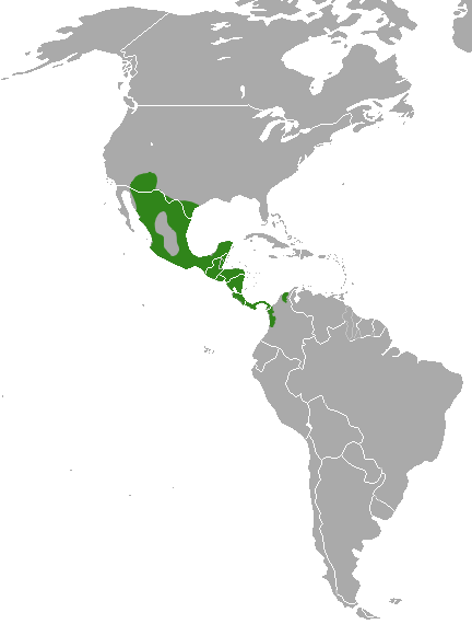 White-nosed Coati (Nasua narica) range